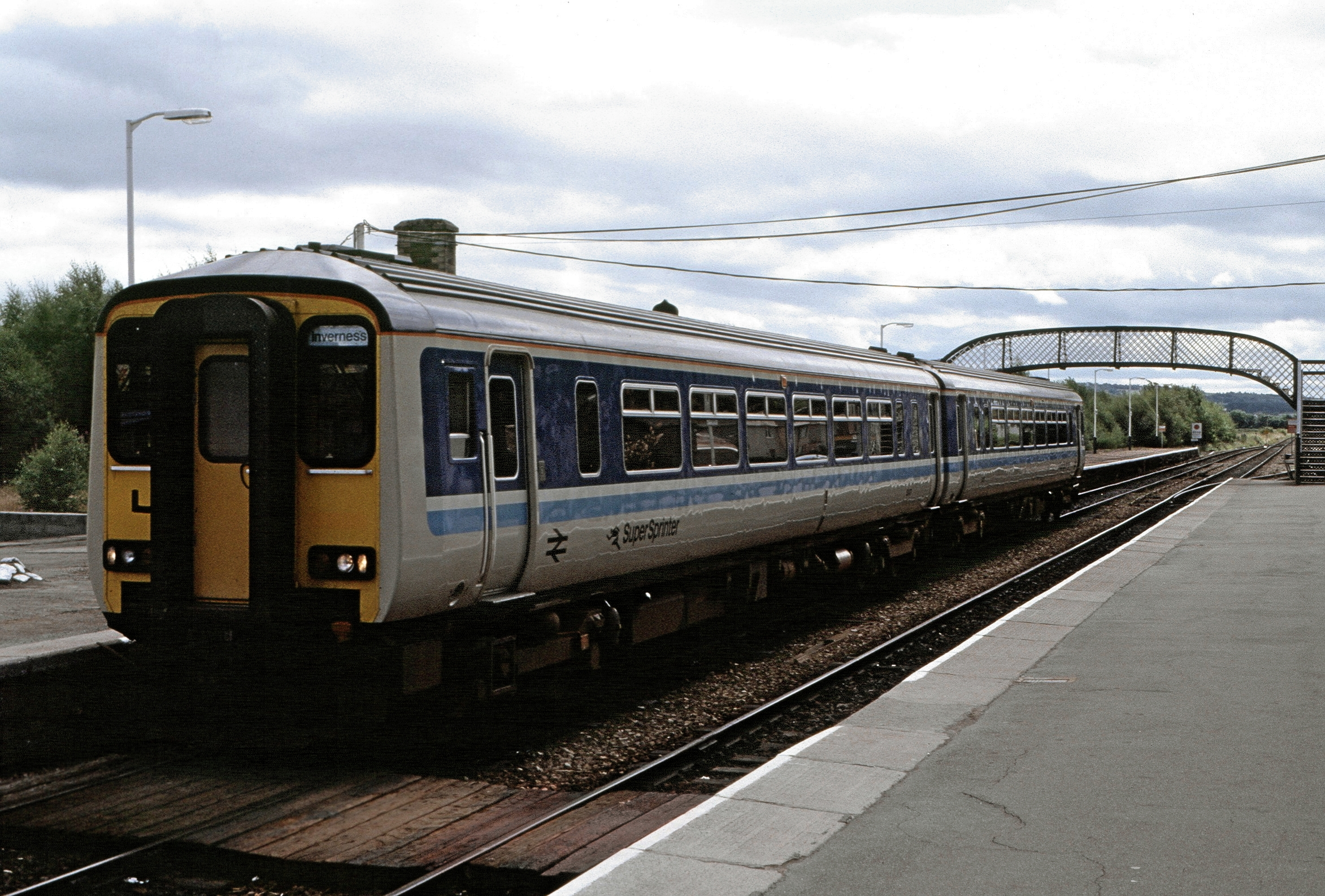 Class 156 'Super Sprinter' at Dingwall station.